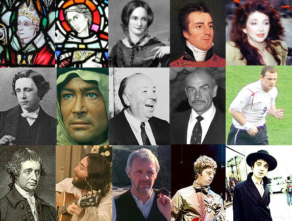 A montage of notable peoples of Great Britain from an Irish ancestral background. People either born in Great Britain or moved from Ireland to stay permanently. Including: Top row, left to right: Aidan of Lindisfarne - Saint (born in Ireland) brought Christianity to Northumbria. Contender for patron saint of the United Kingdom. Columba - Saint (born in Ireland) brought Christianity to the Picts. Charlotte Brontë - Novelist (born in England) Arthur Wellesley, 1st Duke of Wellington - British statesman and military hero (born in Ireland). Kate Bush - singer and musician (born in England). Middle row, left to right: Lewis Carroll - author, mathematician (born in England). Peter O'Toole - actor (born in Ireland or England). Alfred Hitchcock - film director, producer (born in England) Sean Connery - film director, producer (born in Scotland) Wayne Rooney - international footballer (born in England) Bottom row, left to right: Edmund Burke - pioneer of Conservatism (born in Ireland) John Lennon - musician of The Beatles (born in England) Anthony Hopkins - actor (born in Wales). Noel Gallagher - musician - (born in England). Pete Doherty - musician - (born in England).